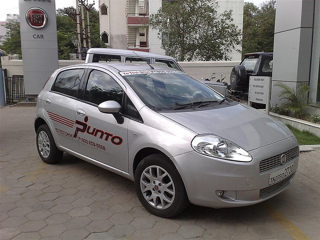 Una Fiat Grande Punto in India